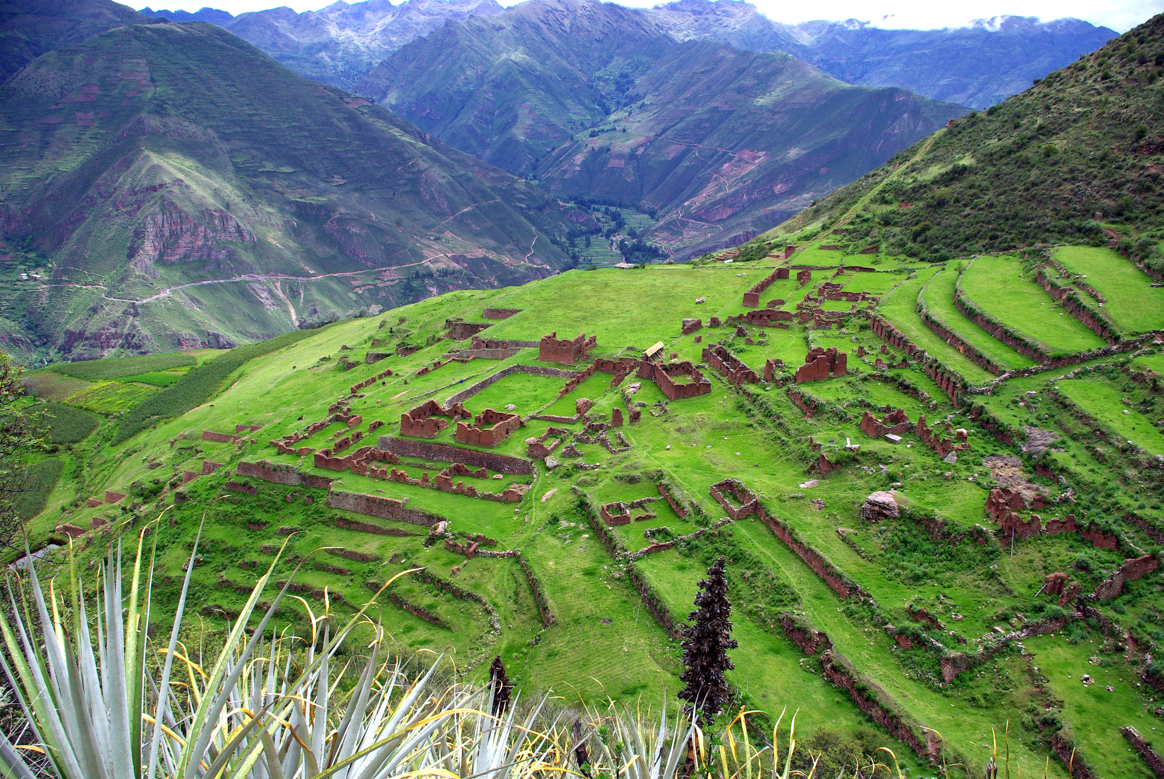 Overview of the Huchuy Qosqo ruins near Lamay in the Sacred Valley, Cusco, Peru.